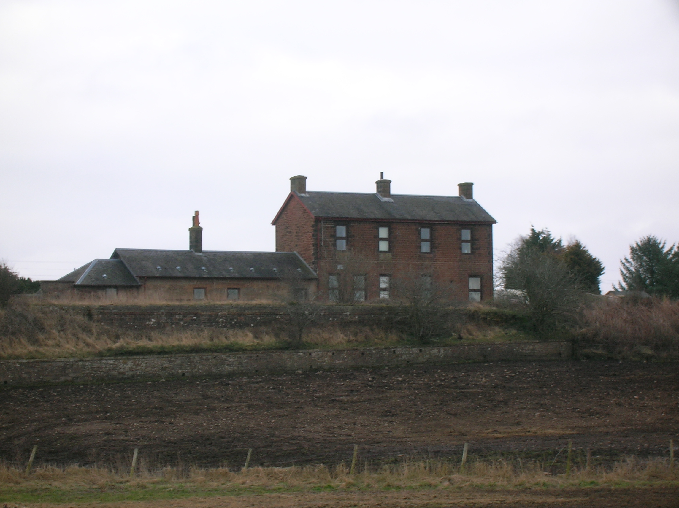 Ruthwell railway station, Dumfries, Scotland, from near Clarencefield. Glasgow - Kilmarnock - Dumfries - Carlisle line.